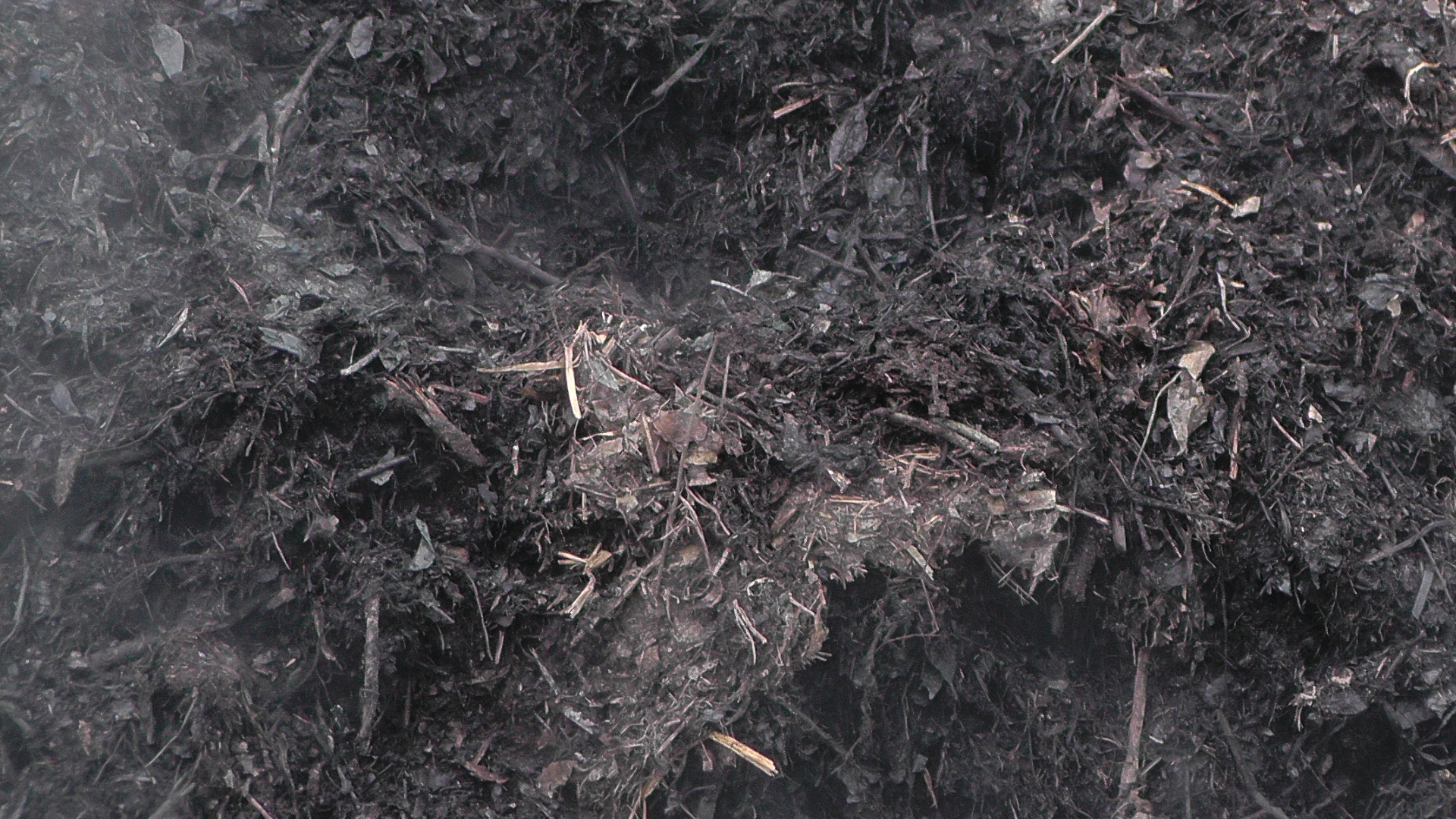 Compost for organic fertilization